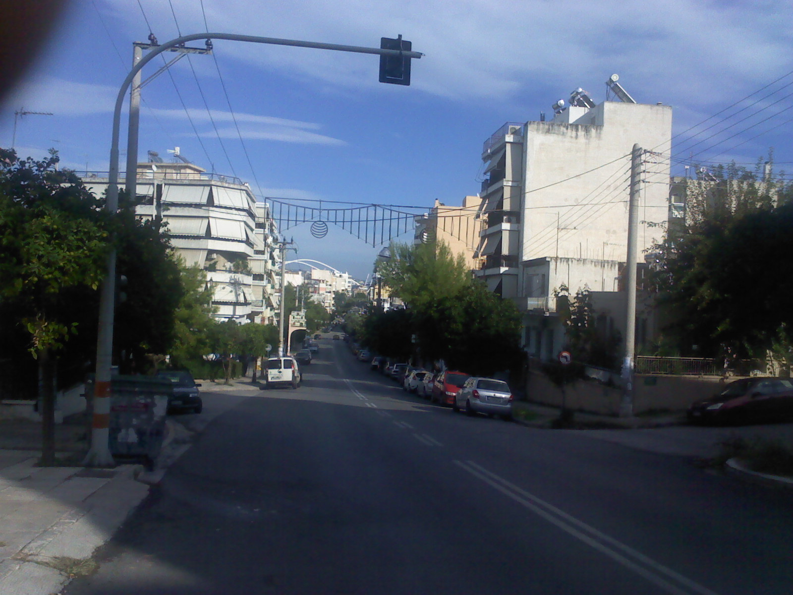 Rue Mideias Nea Ionia